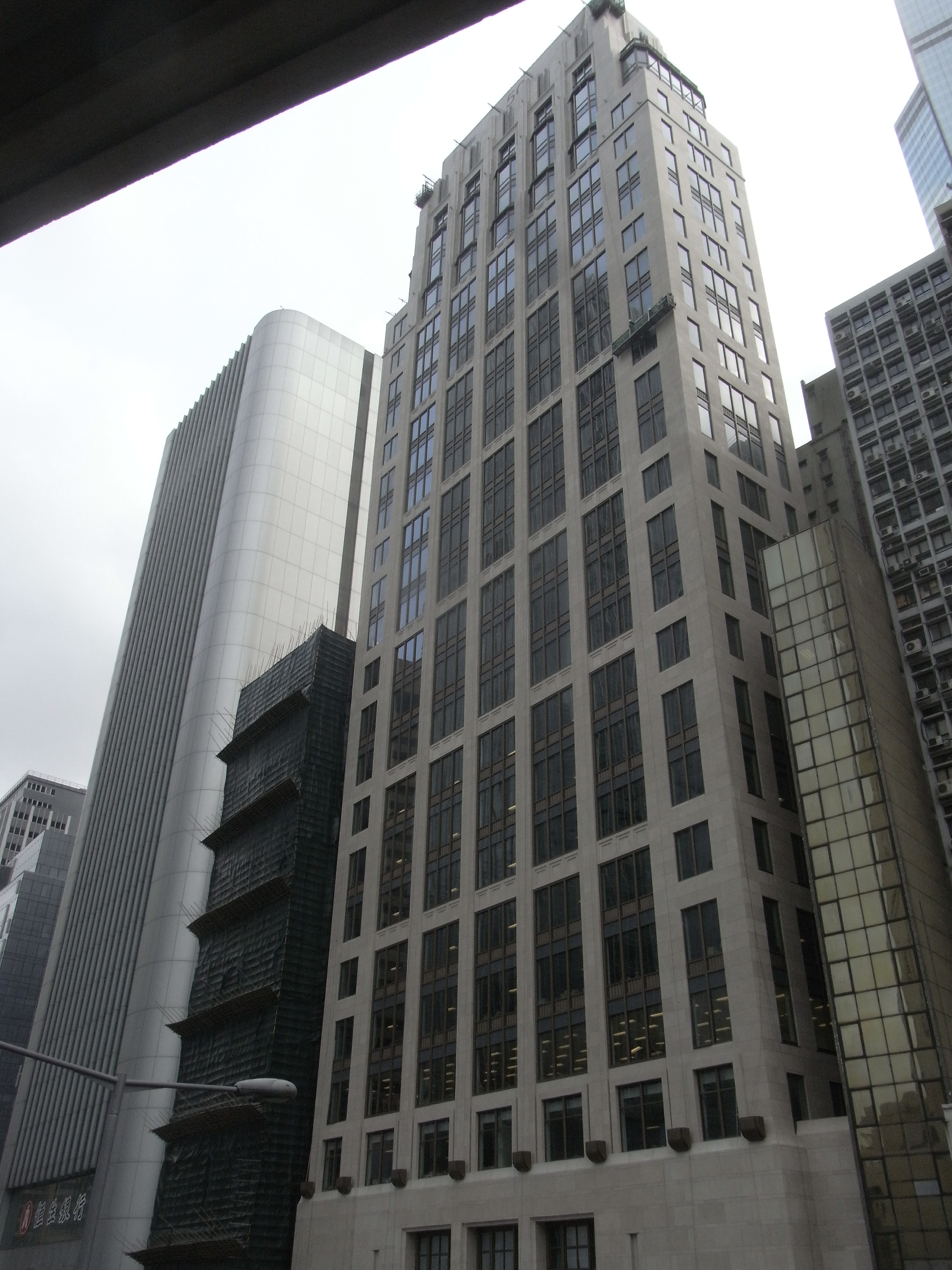 香港島干諾道中50號